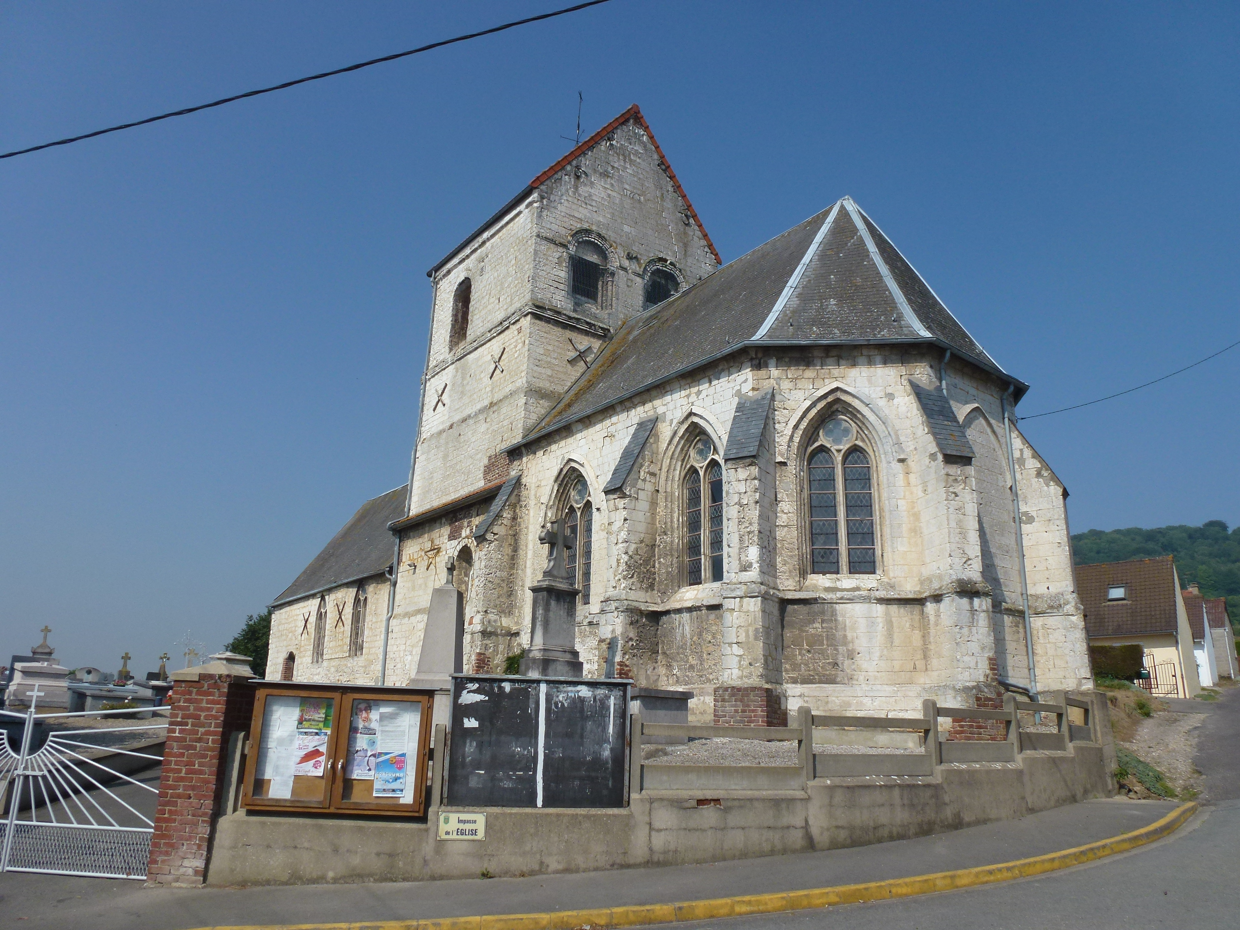 Clerques (Pas-de-Calais) église, extérieur